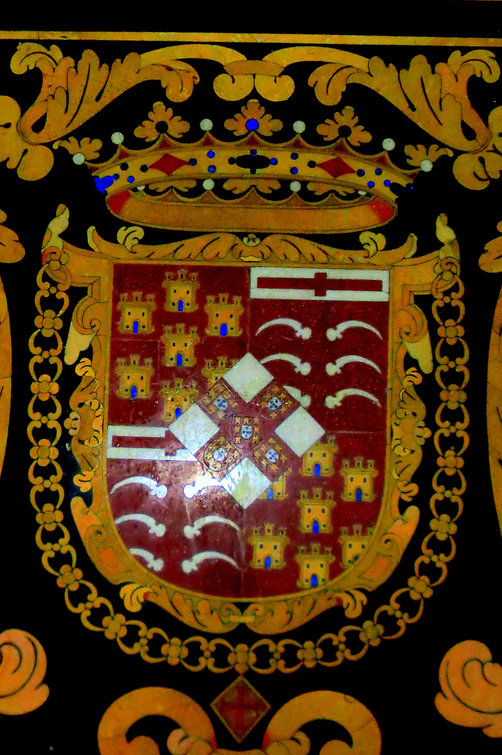 Scudo de Marquesado Castelo Rodrigo